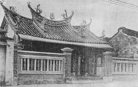 Xilaian Temple